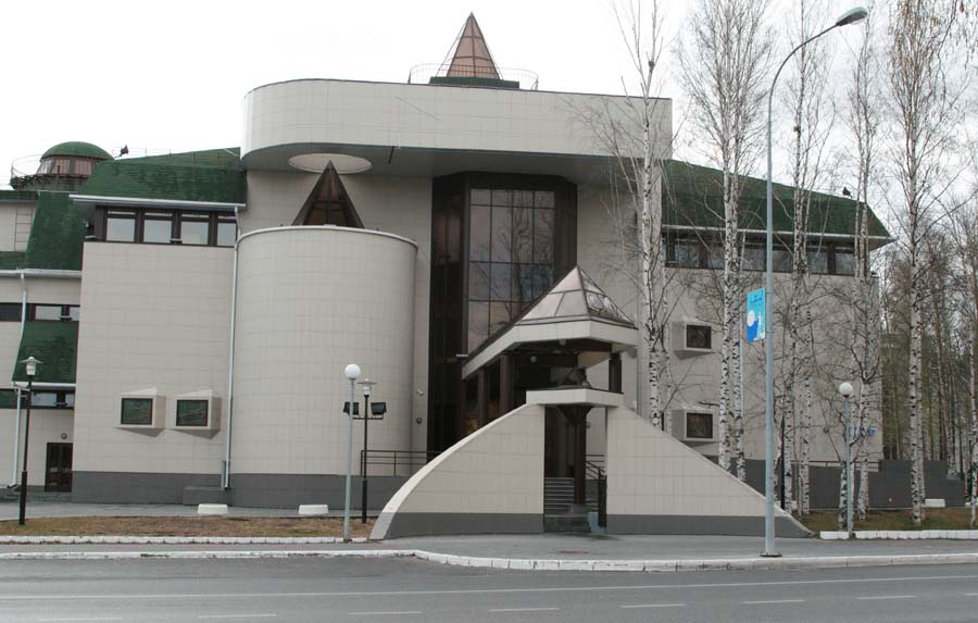 Museum of Nature and Humanity, Khanty-Mansijsk